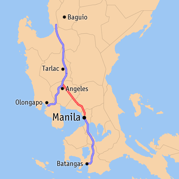 Map of expressways on Luzon in the Philippines, highlighting the North Luzon Expressway